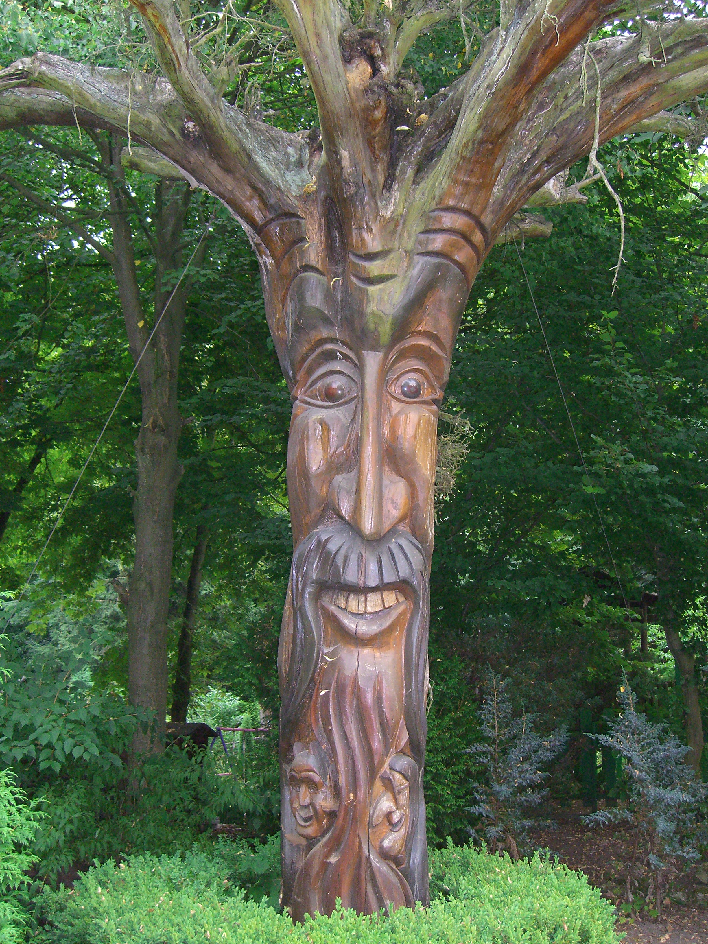 Bad Helmstedt - the world tallest 'root gnome' (4 m)